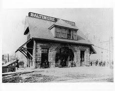 The old Baltimore and Lehigh Railway passenger station on North Avenue, Baltimore, Maryland, as it appeared in the mid-1890s. In 1901, it became part of the Maryland and Pennsylvania Railroad. In 1937, the station was demolished for construction of the present Howard Street steel girder bridge